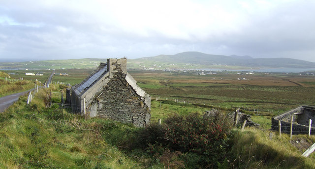 Old cottage at Coonanaspig The view north is to the high point of Valentia Island - Geokaun, at 266m. elevation.